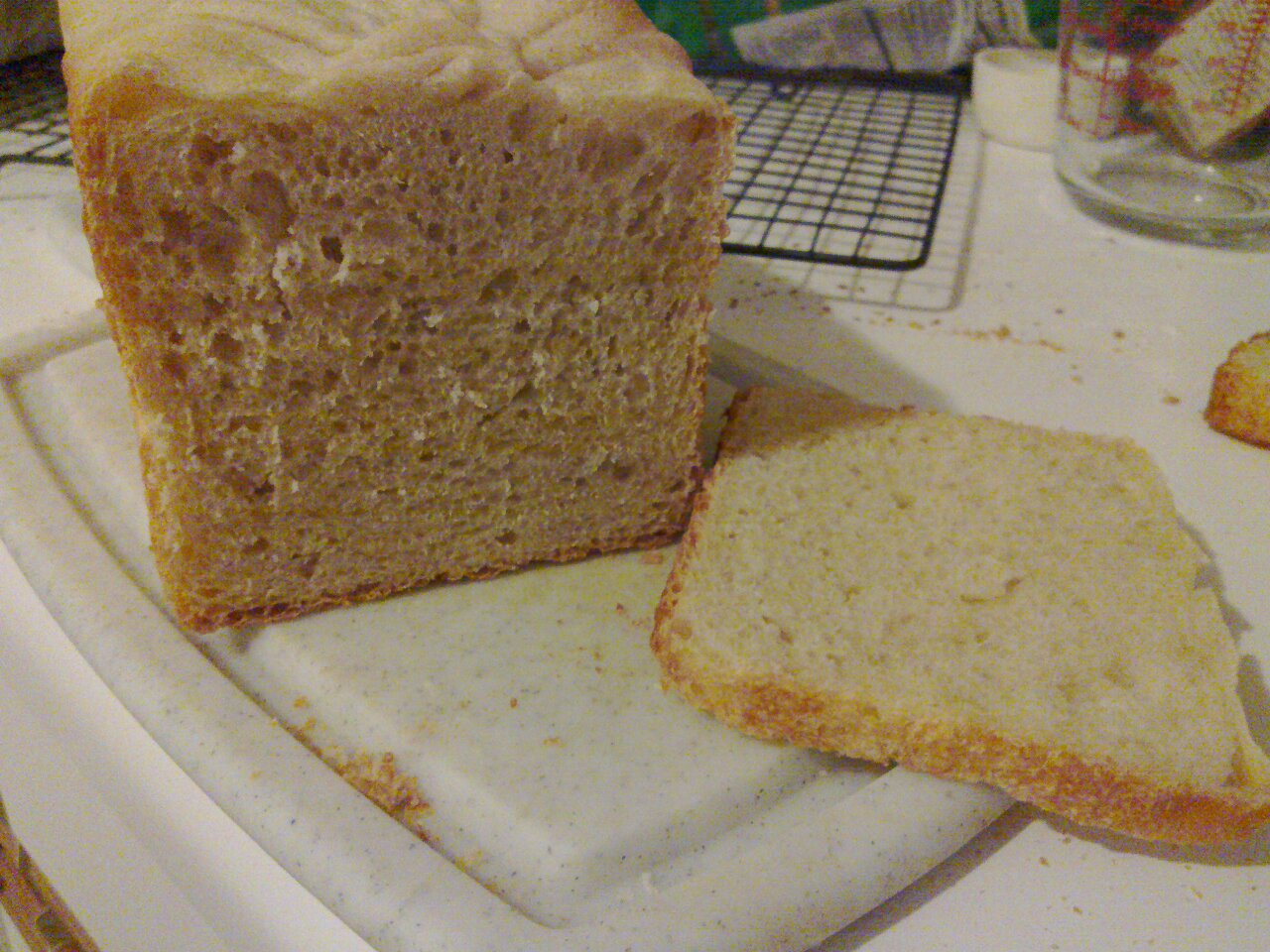 A sourdough pullman loaf. The pullman loaf, sometimes called the "sandwich loaf" or "pan bread," is a type of bread made with white flour and baked in a long, narrow, lidded pan. The French term for this style of loaf is pain de mie. In the United States, many popular mass-produced sliced breads are actually pullman loaves; the slice of such breads are frequently square, with four flat (uncurved) crusts. The name "Pullman" was derived from its use in the compact kitchens of the Pullman railway cars. The Pullman Company is credited with inventing the lidded baking pans used to create the square loaves. Three Pullman loaves occupied the same space as two standard round-topped loaves, thus maximizing the use of space in the Pullman kitchen.